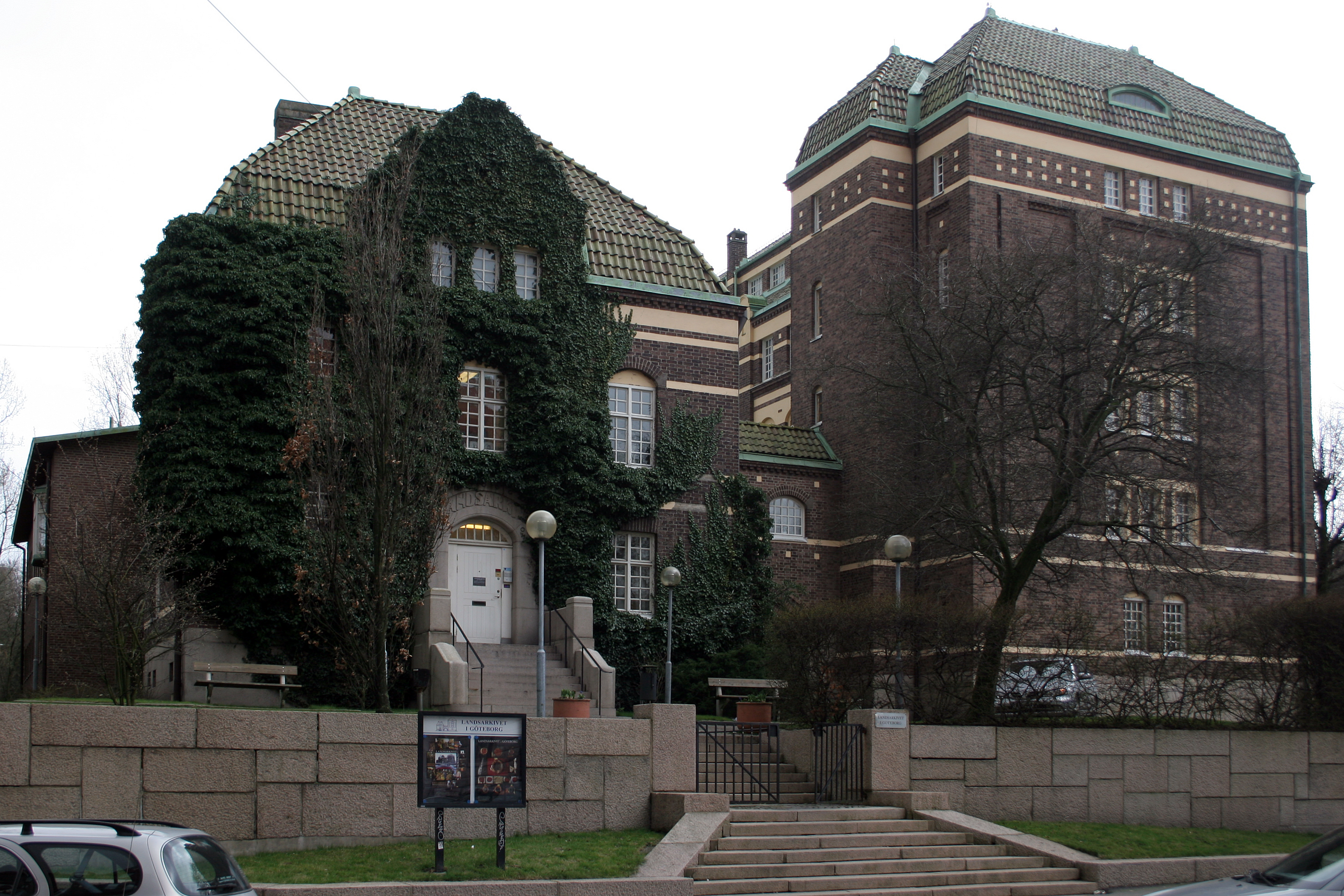 Regional archive in Gothenburg.